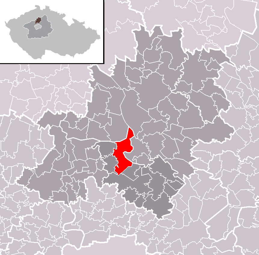 Location of Obříství municipality within Mělník District and administrative area of Neratovice as a Municipality with Extended Competence.